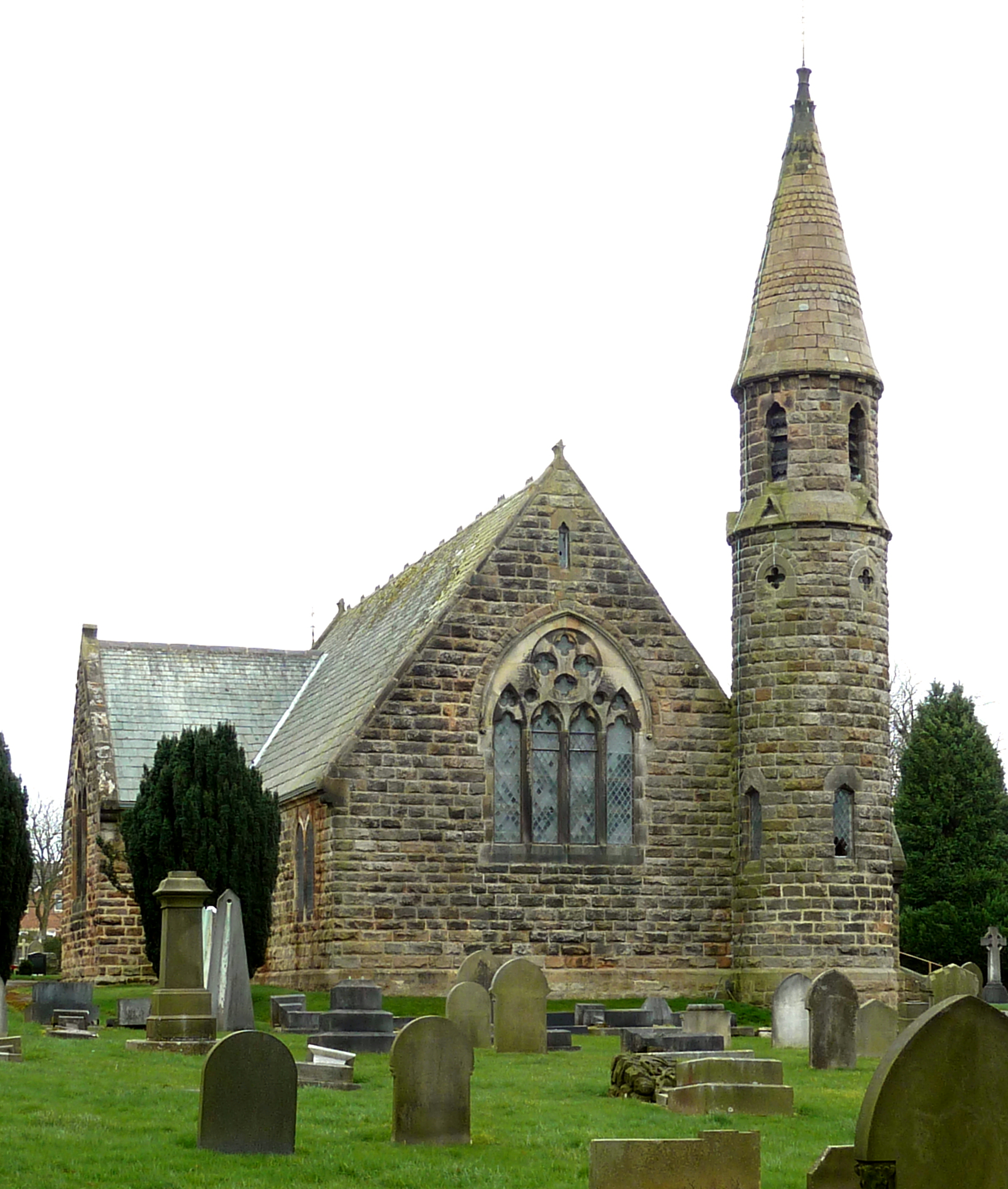 Church of All Saints, Otley Road, Harlow Hill, Harrogate, North Yorkshire, England. It is the cemetery chapel in Harlow Hill Cemetery, and was designed in 1870 by architects Isaac Thomas Shutt and Alfred Hill Thompson.